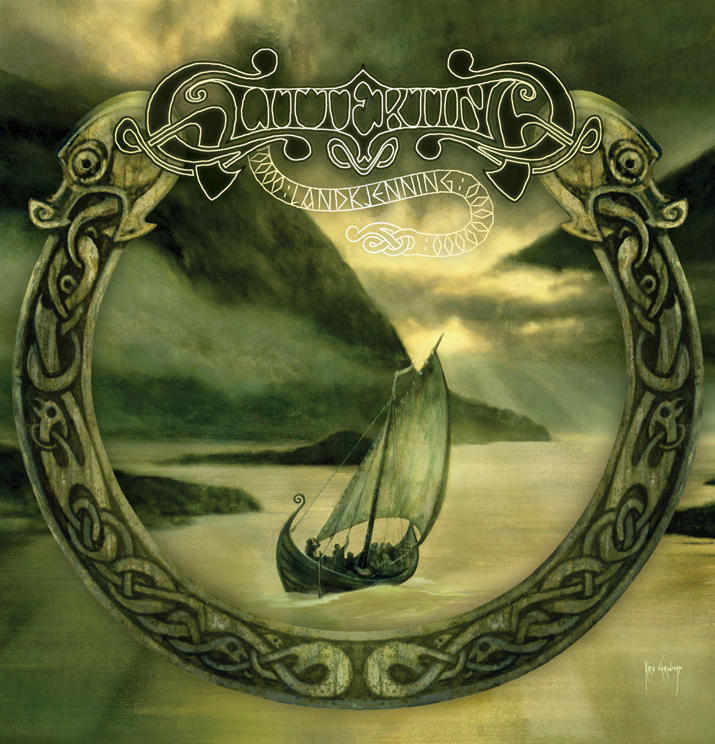 Glittertind - Landkjenning (album cover)